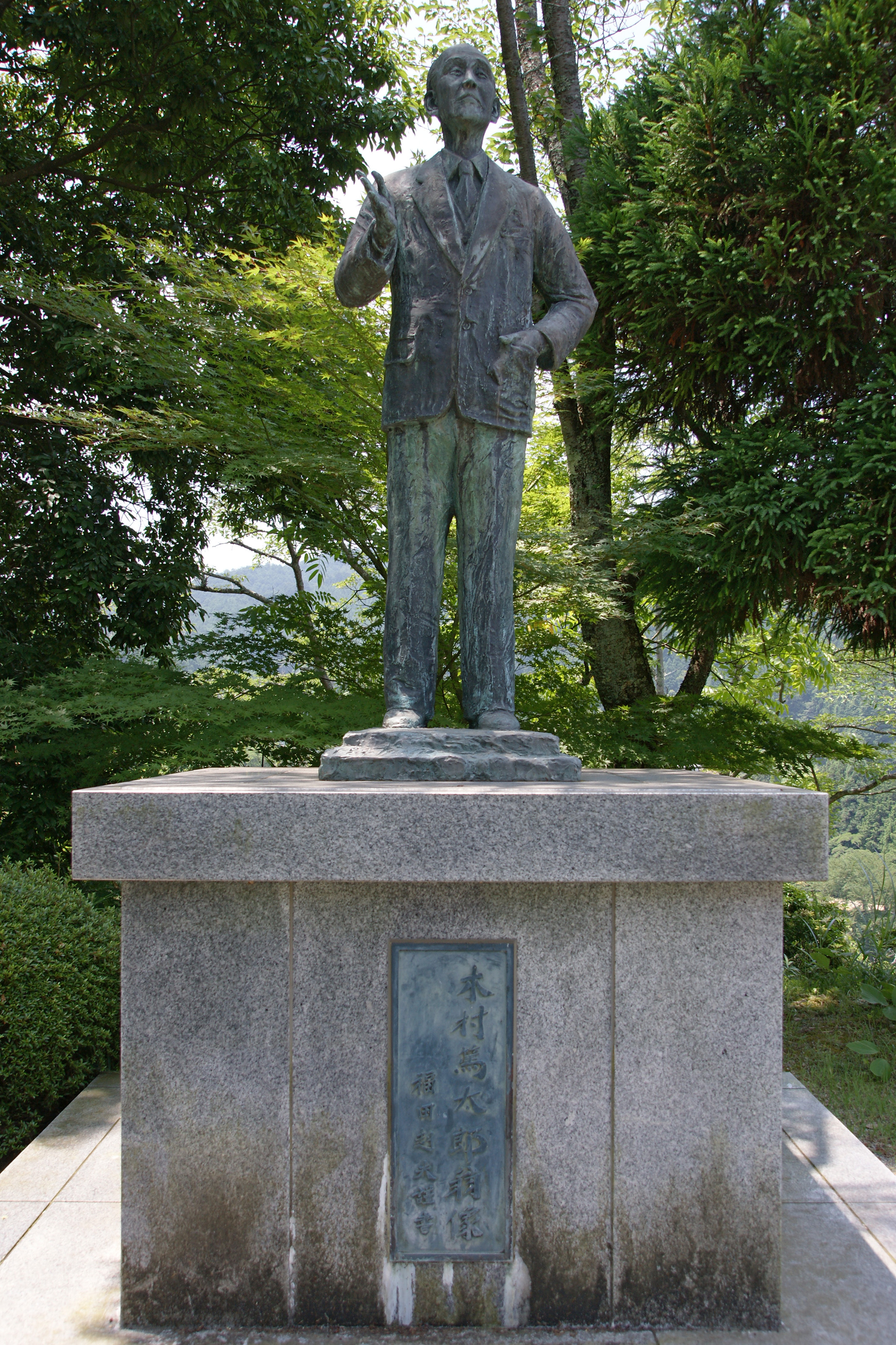 Masakizaka-kenzen-dojo in Nara, Nara prefecture, Japan